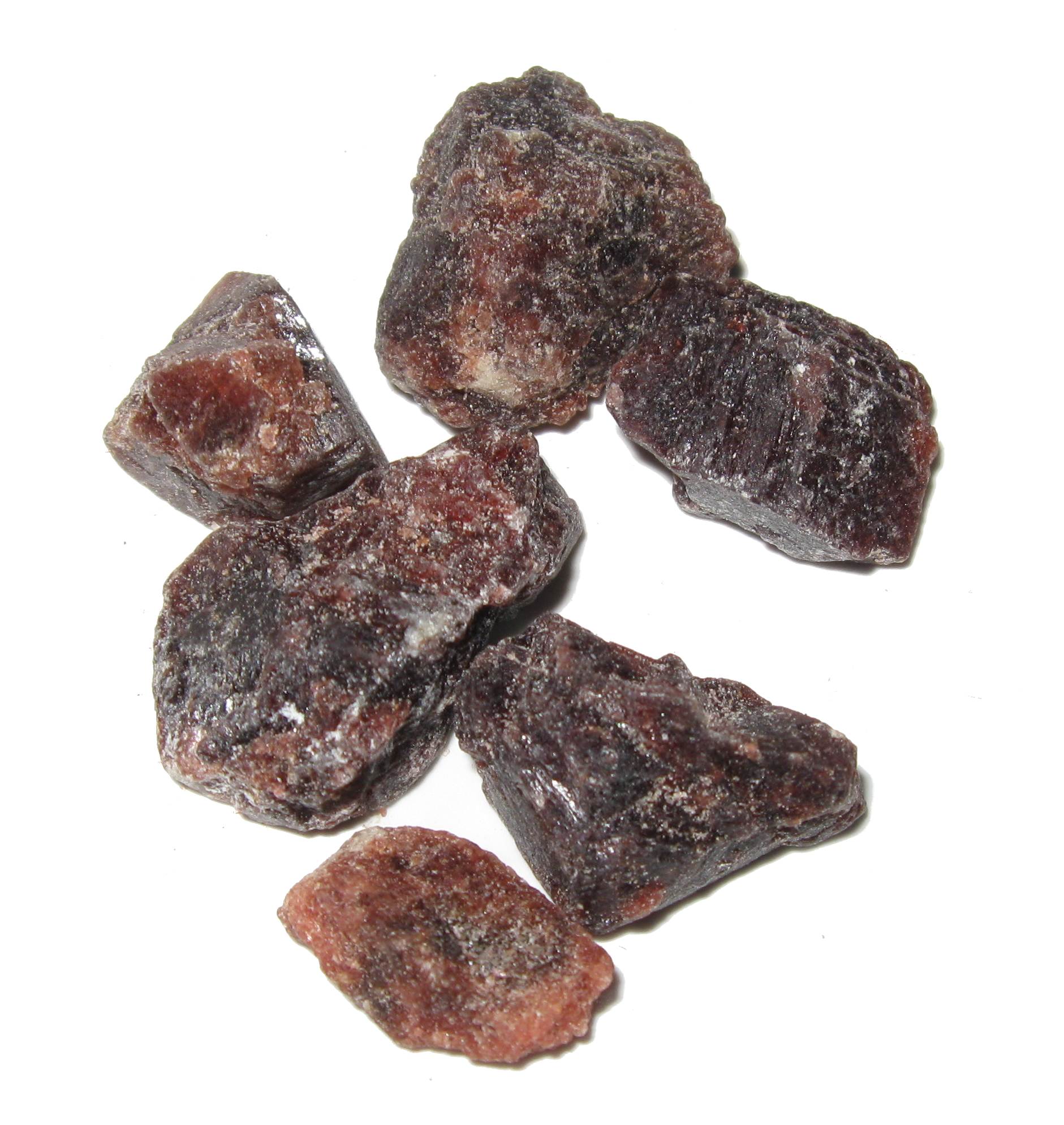 Black salts crystals